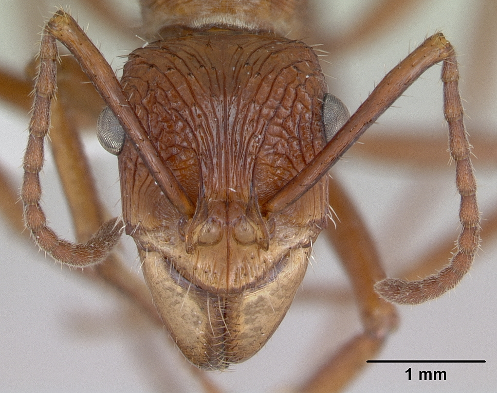 Head view of ant Ectatomma tuberculatum specimen casent0173380.